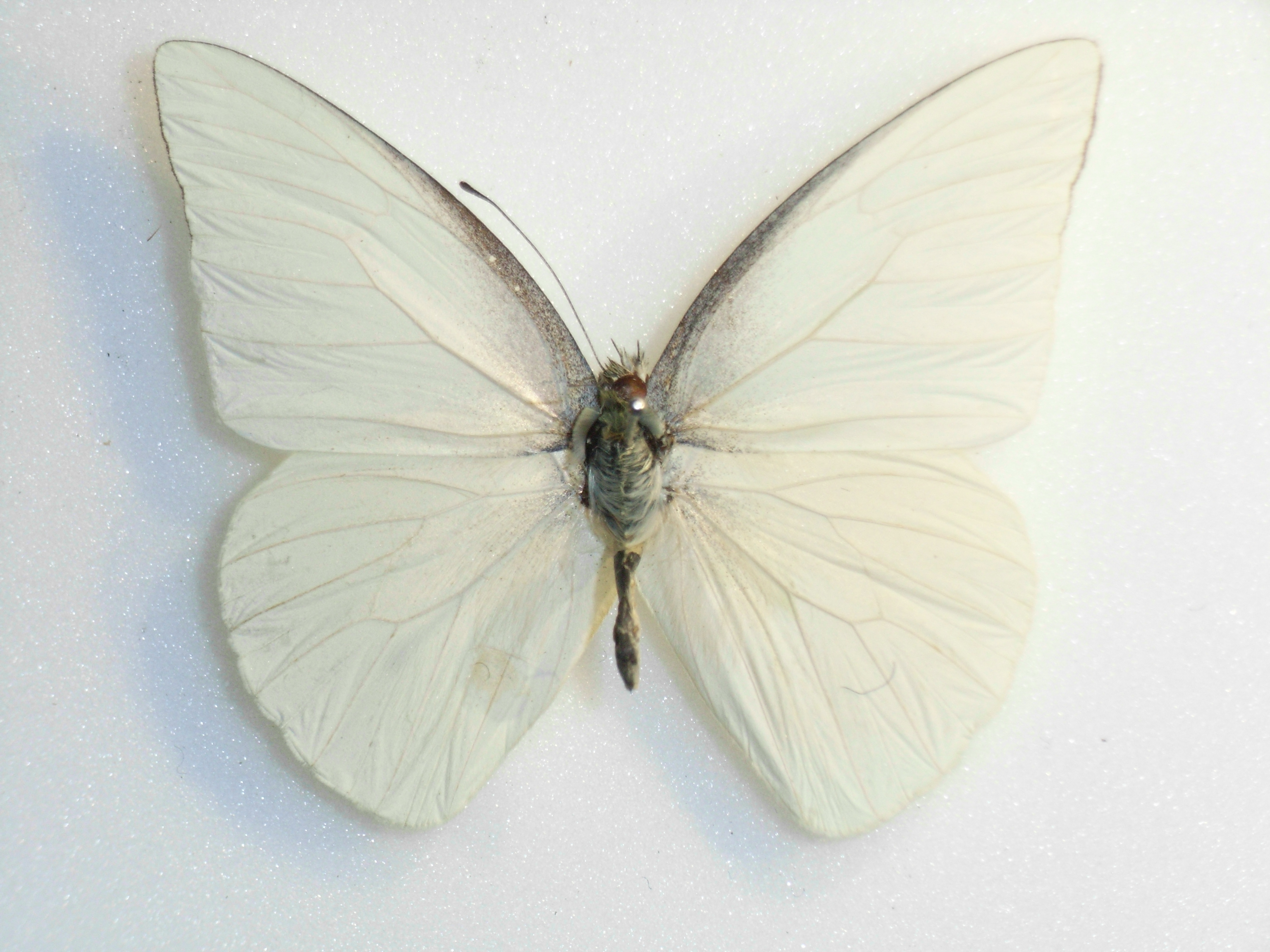 Saletara panda nathalia (C. & R. Felder, 1862)